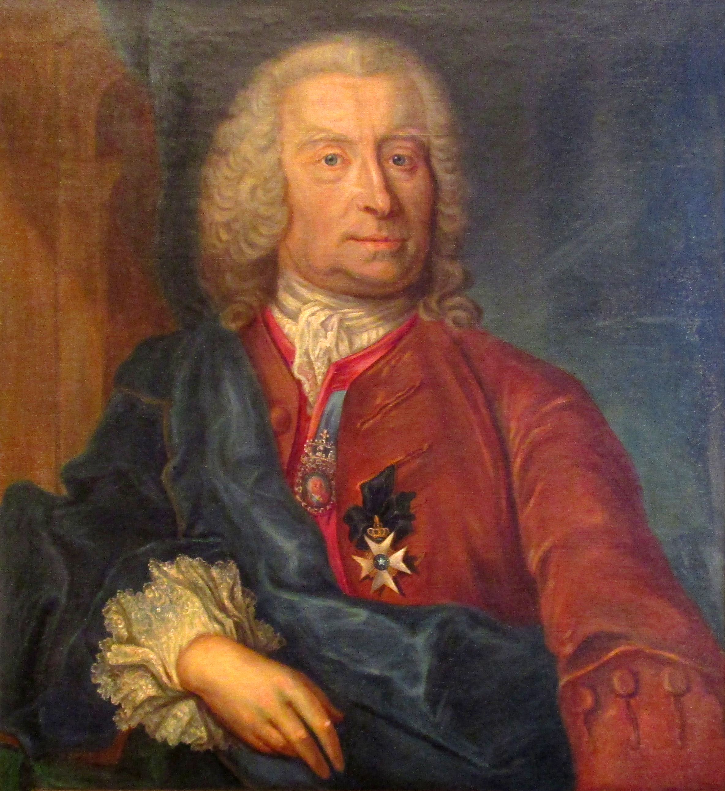 Colin Campbell (1 November 1686 – 9 May 1757) Cropped version of a contemporary replica of the portrait in the collection of the City Museum of Gothenburg, now exhibited in the Gothenburg Maritime Museum bearing a painted cartouche with text stating that the portrait depicts Campbell in his 70th year (that is, in 1756), and describing his efforts in establishing the Swedish East India Company.